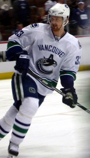 Photo by Matthew McPherson, Honda Center, Anaheim, CA.